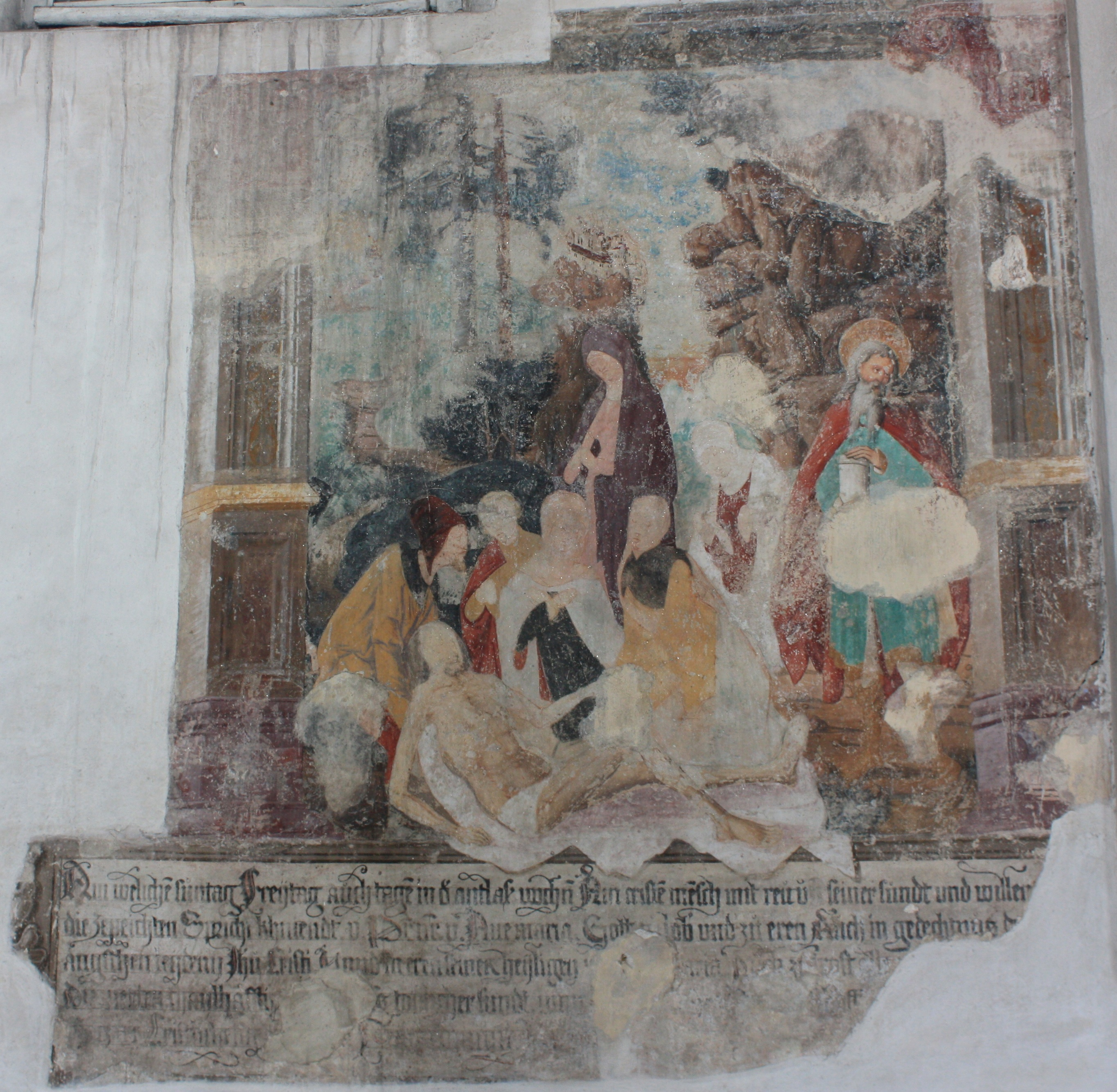 Parish church "Assumption of Mary" - Descent from the Cross Locality: Maria Rojach Community:Sankt Andrä